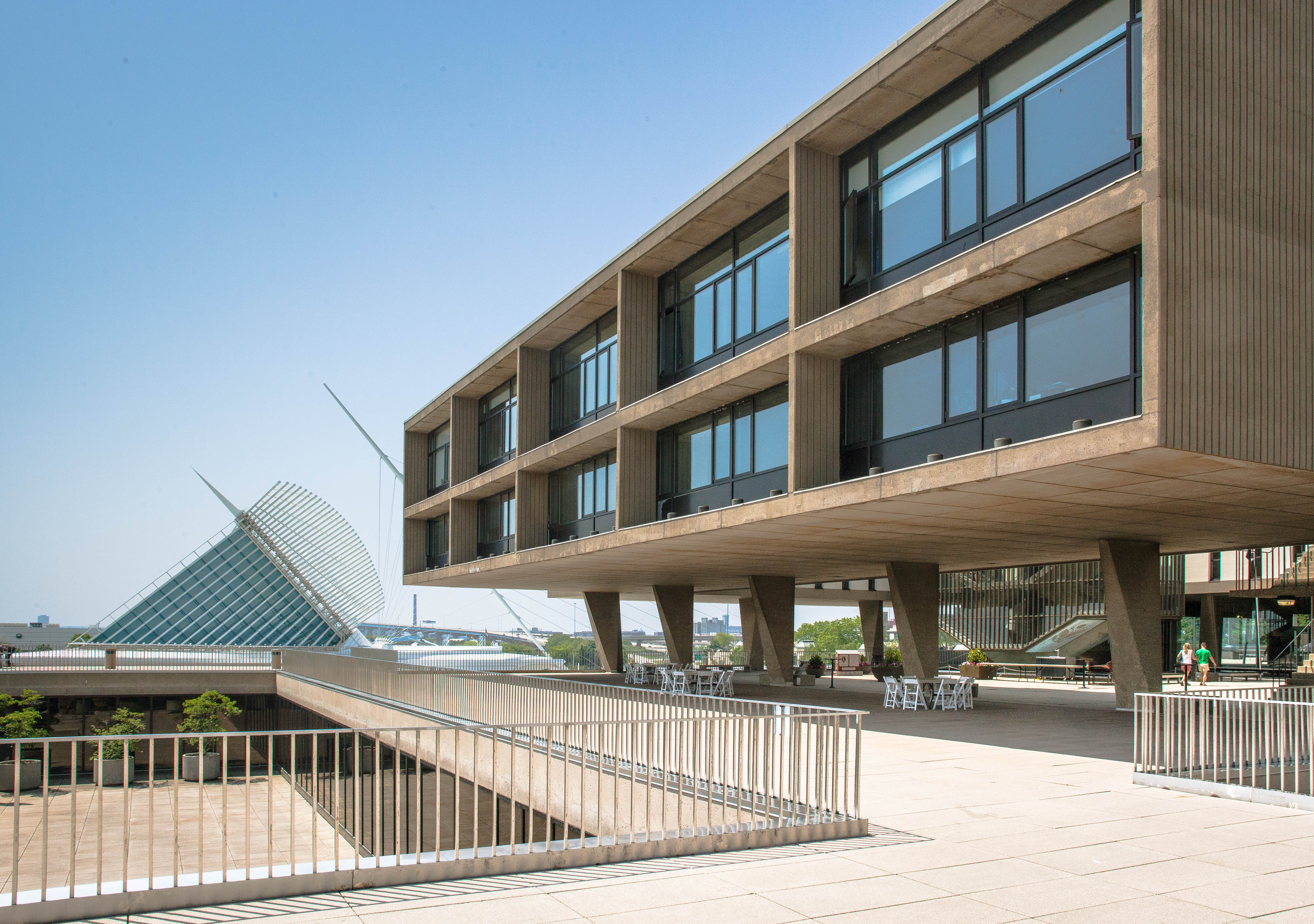 Milwaukee County War Memorial Center Milwaukee, Wisconsin